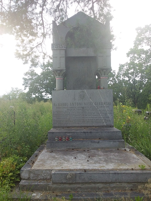 Polish (Catholic) Cemetery in Zhytomyr